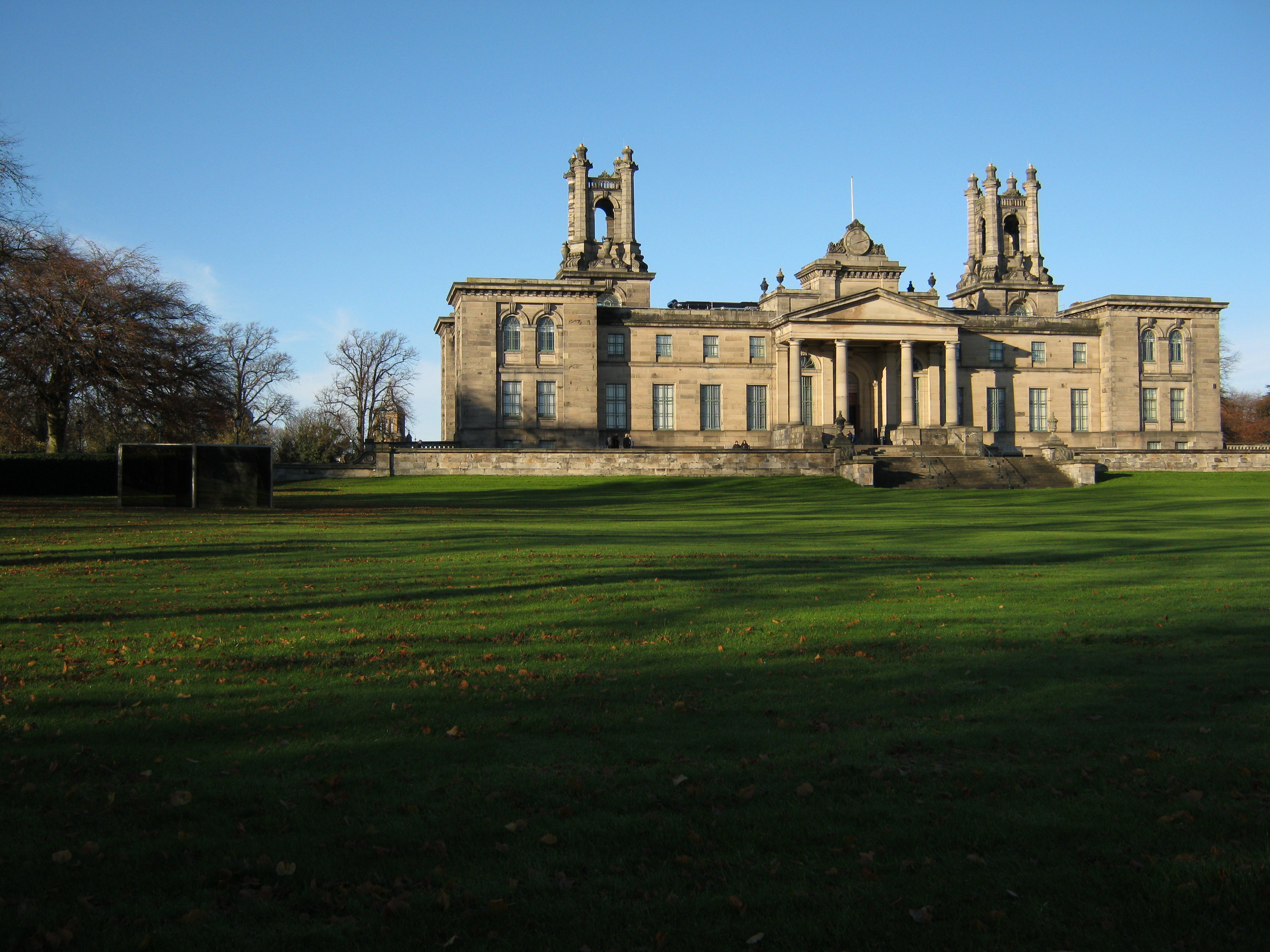 Scottish National Gallery of Modern Art Two, exterior